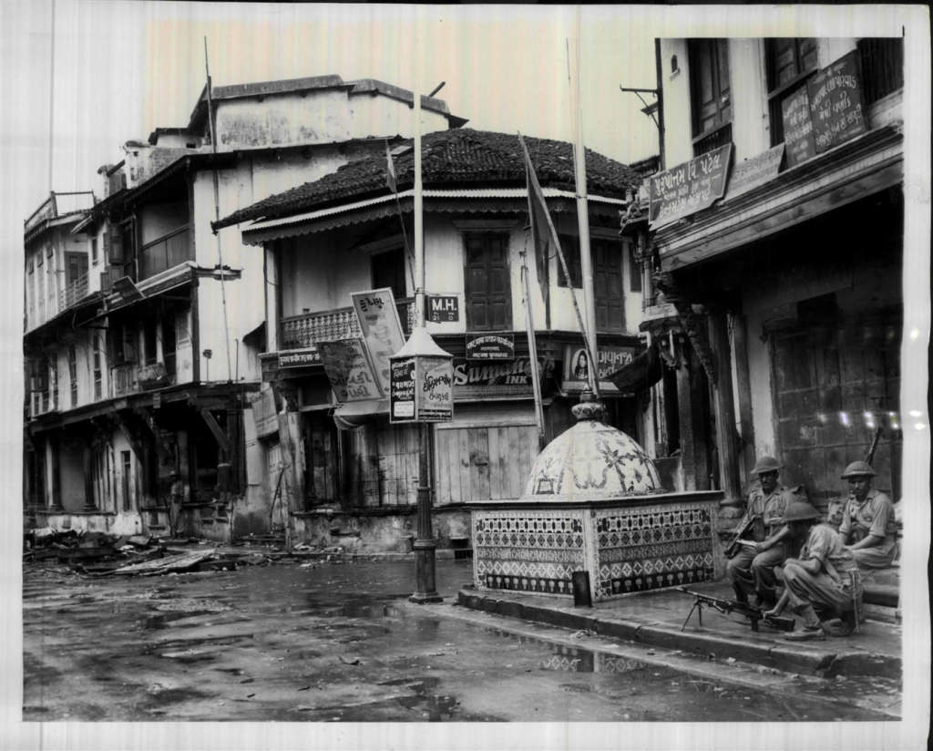 Communal trouble also erupts in Ahmedabad, between Muslims and Jains; a news bureau photo, and *the original caption